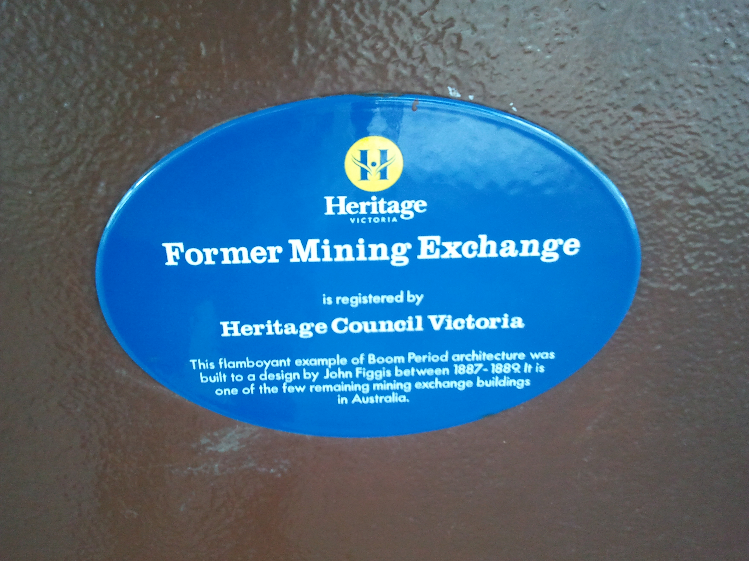 This is the blue plaque provided by Heritage Victoria for sites that are on the Victorian Heritage Register. This plaque is on the Ballarat Mining Exchange building in Lydiard Street, Ballarat, Victoria, Australia.